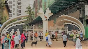 In front of DNMC